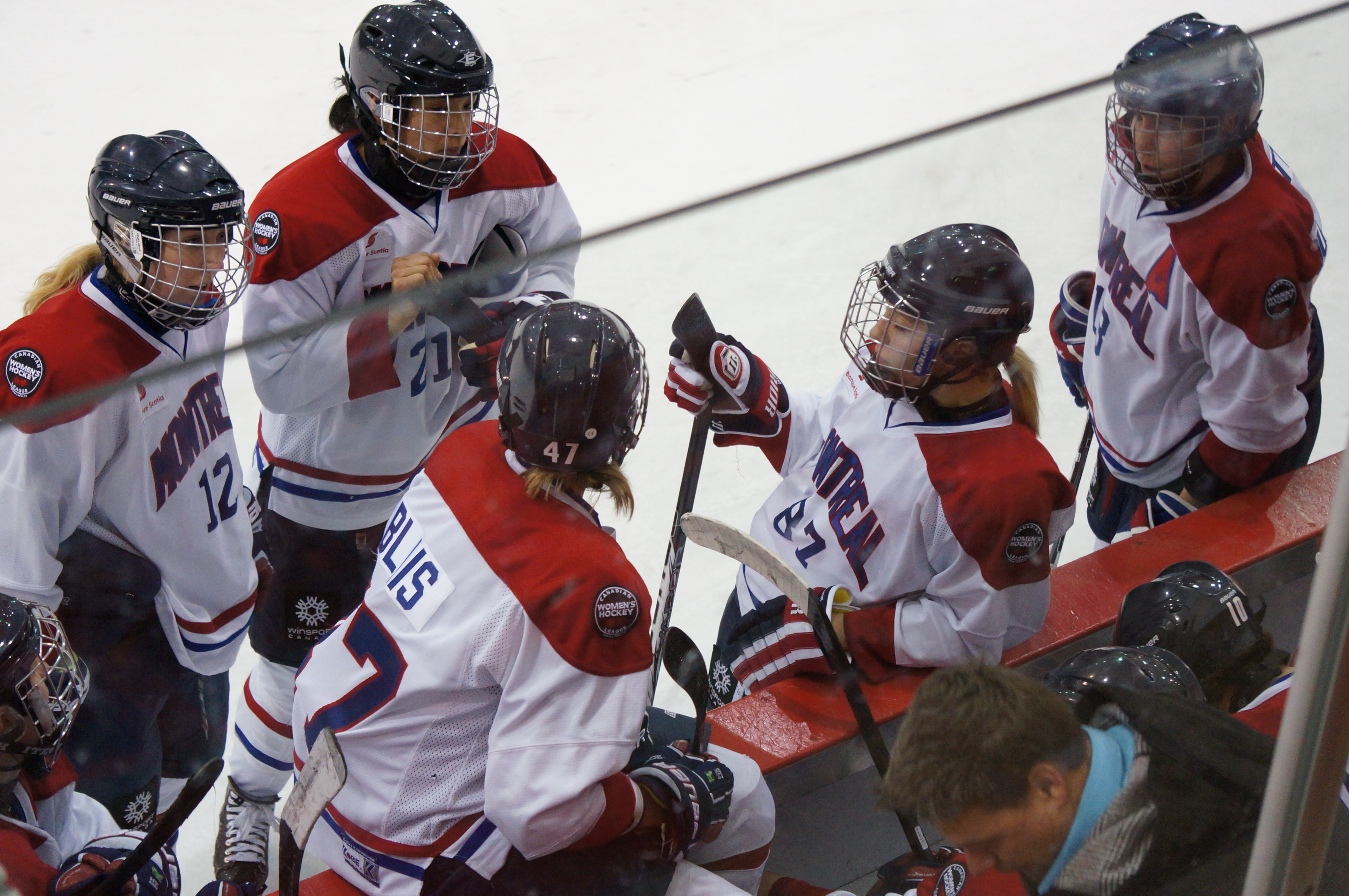 Women's hockey